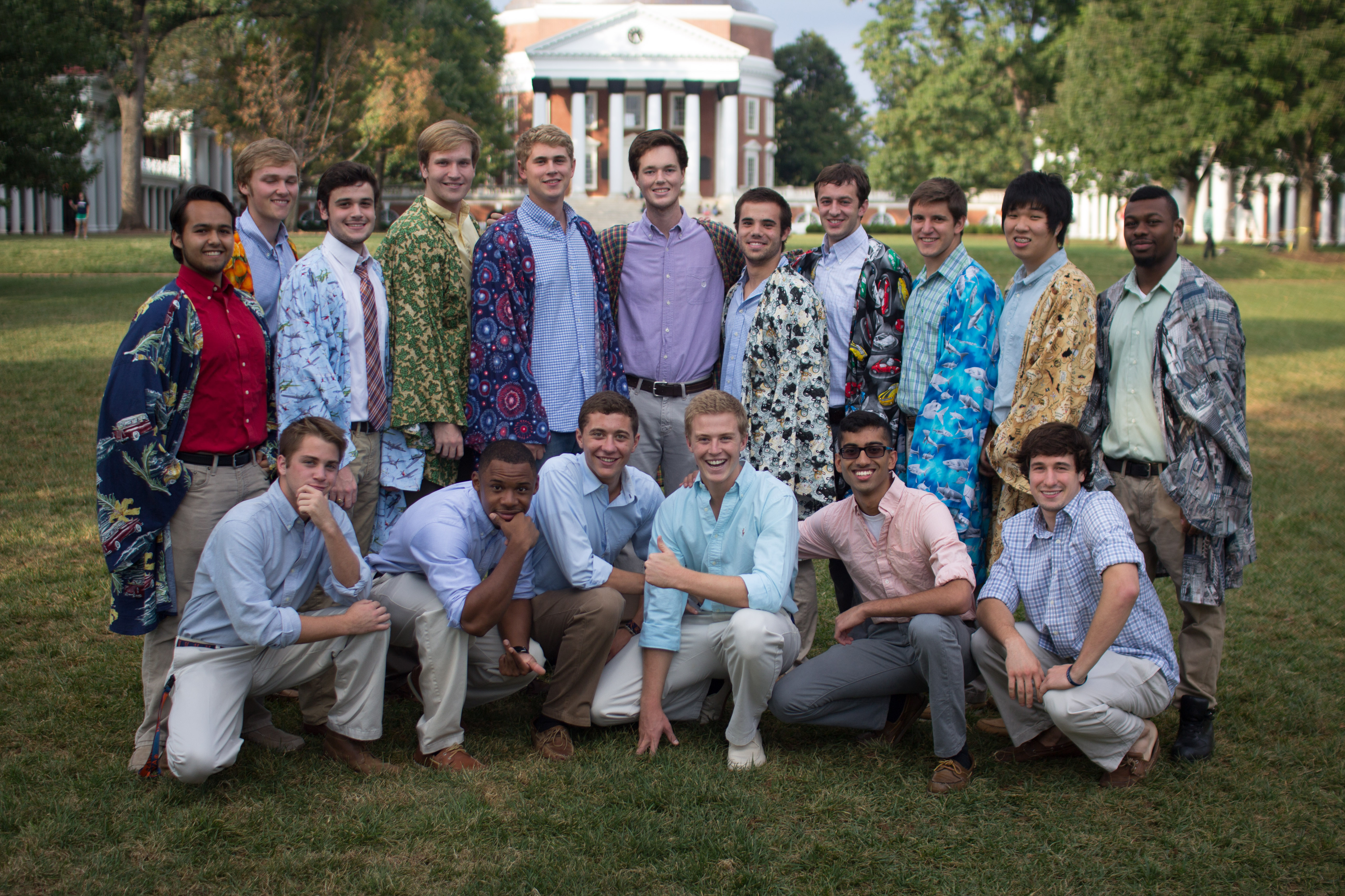 The 2012-2013 Hullabahoos in front of the Rotunda at the University of Virginia.